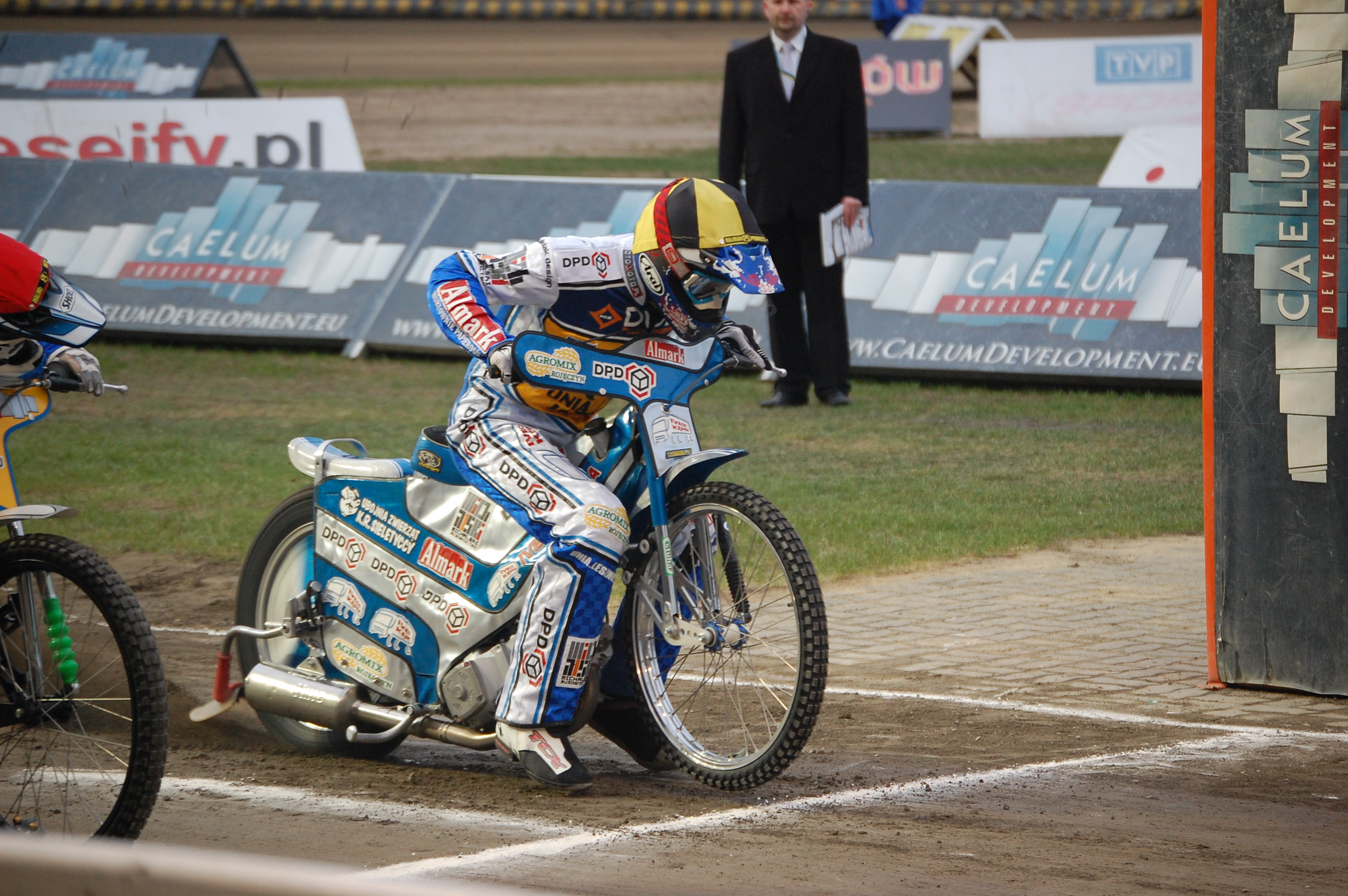 Polish speedway rider, Sławomir Musielak, during the match of Unia Leszno (2010).